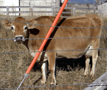 Jersey cow in western United States. Whitney milks these cows at the barn.